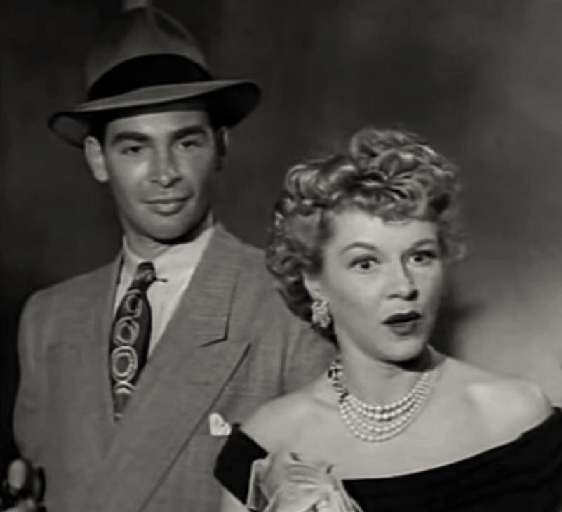 Richard Irving and Claire Trevor in Borderline - cropped screenshot